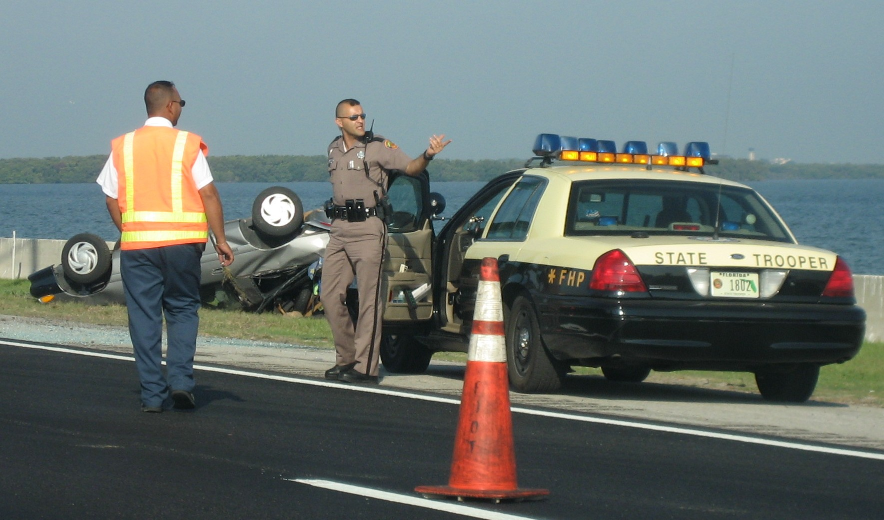 State Trooper of the Florida Highway Patrol supervises cleanup of a multi-car wreck on the Howard Frankland Bridge in St. Petersburg Florida on the morning of June 9, 2006.